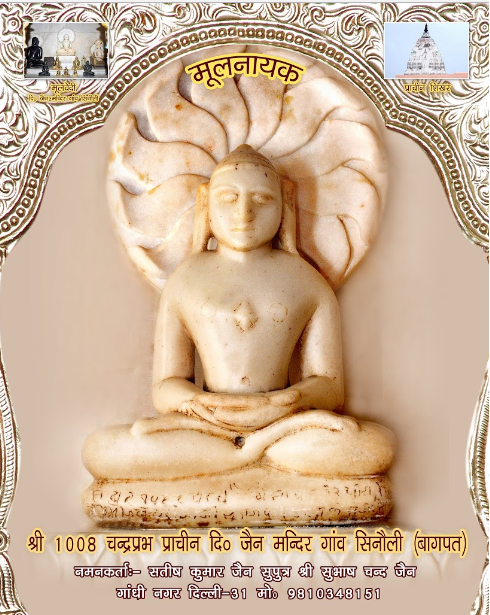 Shri Chandraprabhu Swami, Jain Temple at Sinauli